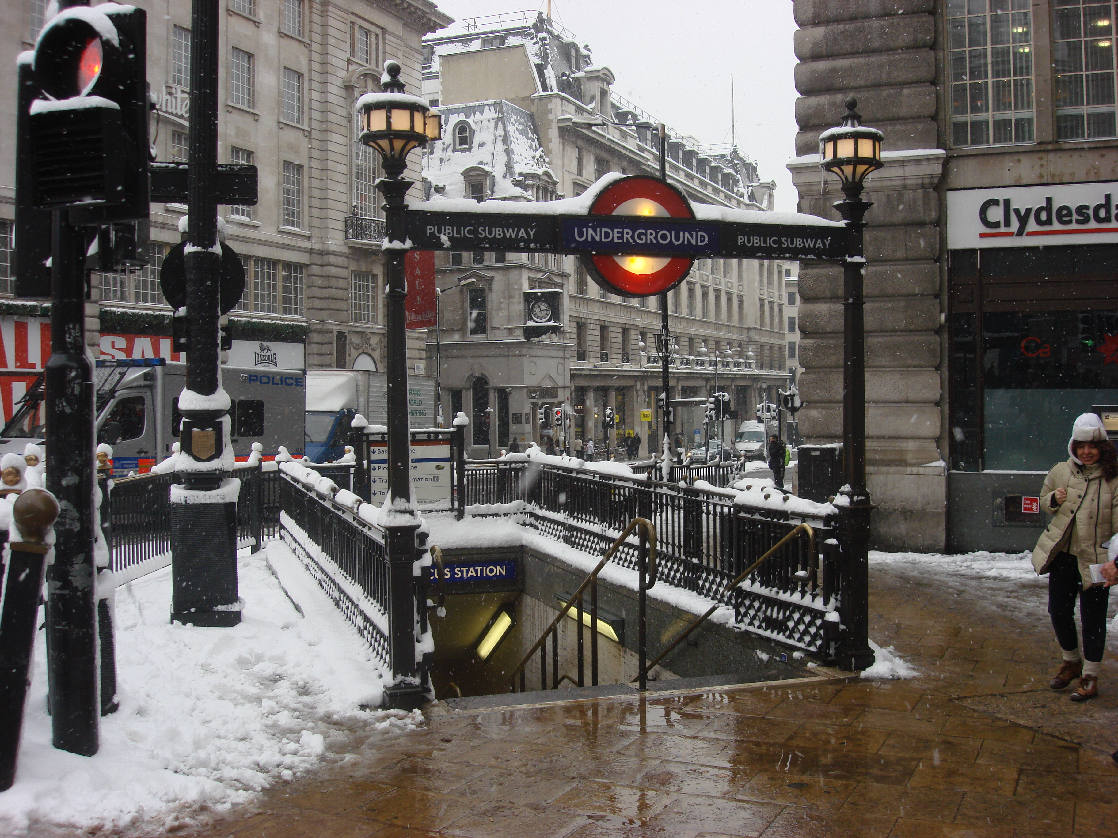 Piccadilly Circus tube station entrance in snow, 2 February 2009